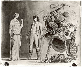 The Painter as Hercules at the Crossroads